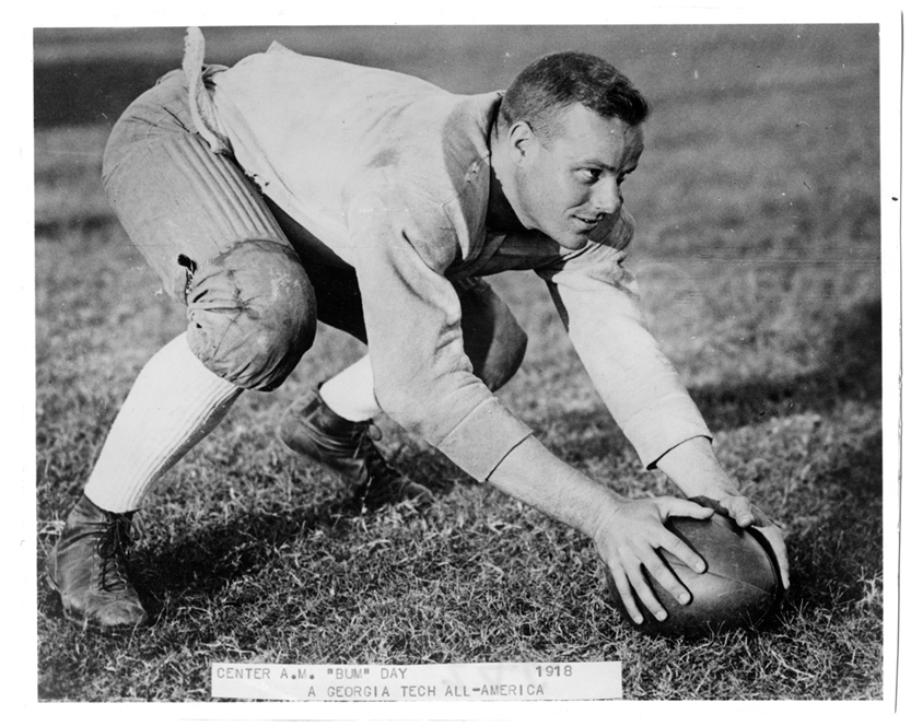 Georgia Tech football player and center "Bum" Day in 1918. He also played for the Georgia Bulldogs for some years afterwards.